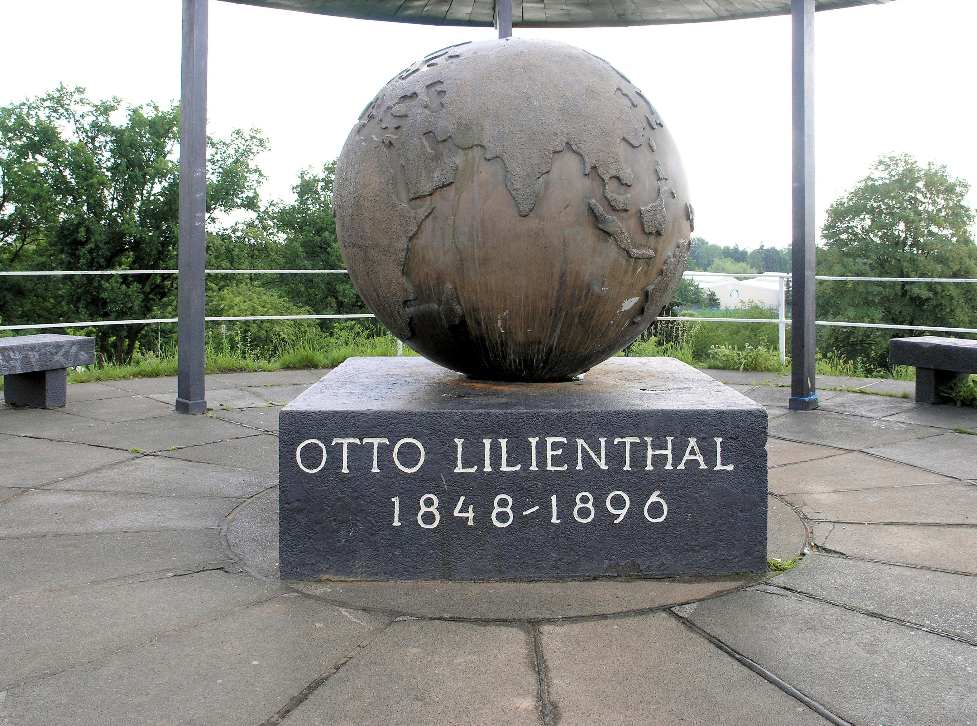 Memorial plaque, Otto Lilienthal by Alfred Trenkel, 1952, Schütte-Lanz-Straße 25, Berlin-Lichterfelde, Germany